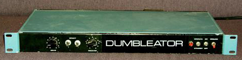 Tom McGrath's Dumbleator